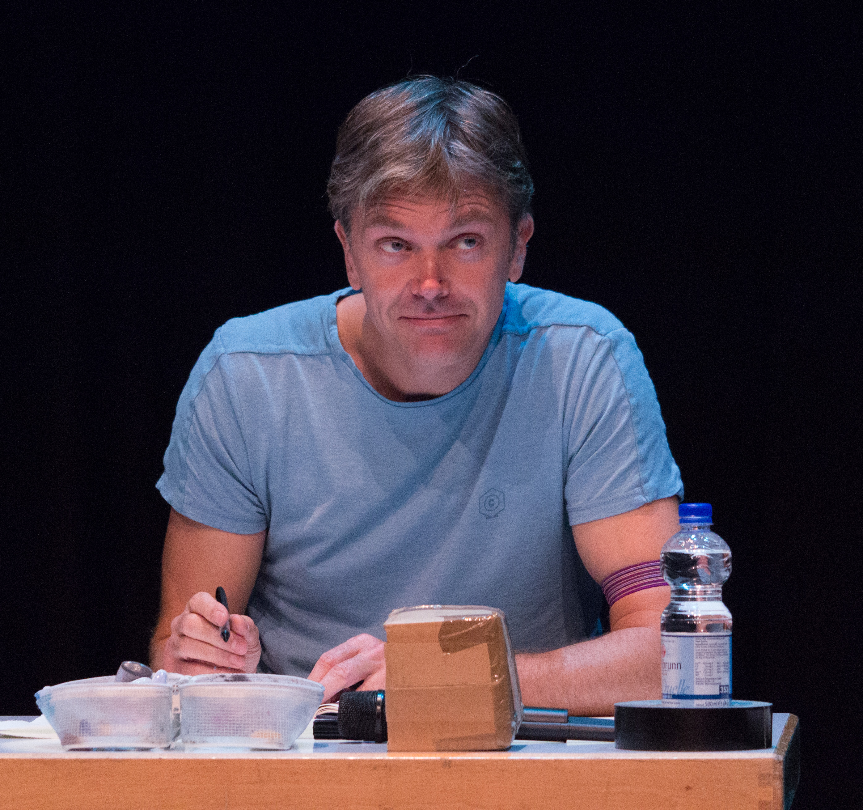 Floris Oudshoorn at the first edition of the CrossComix Festival